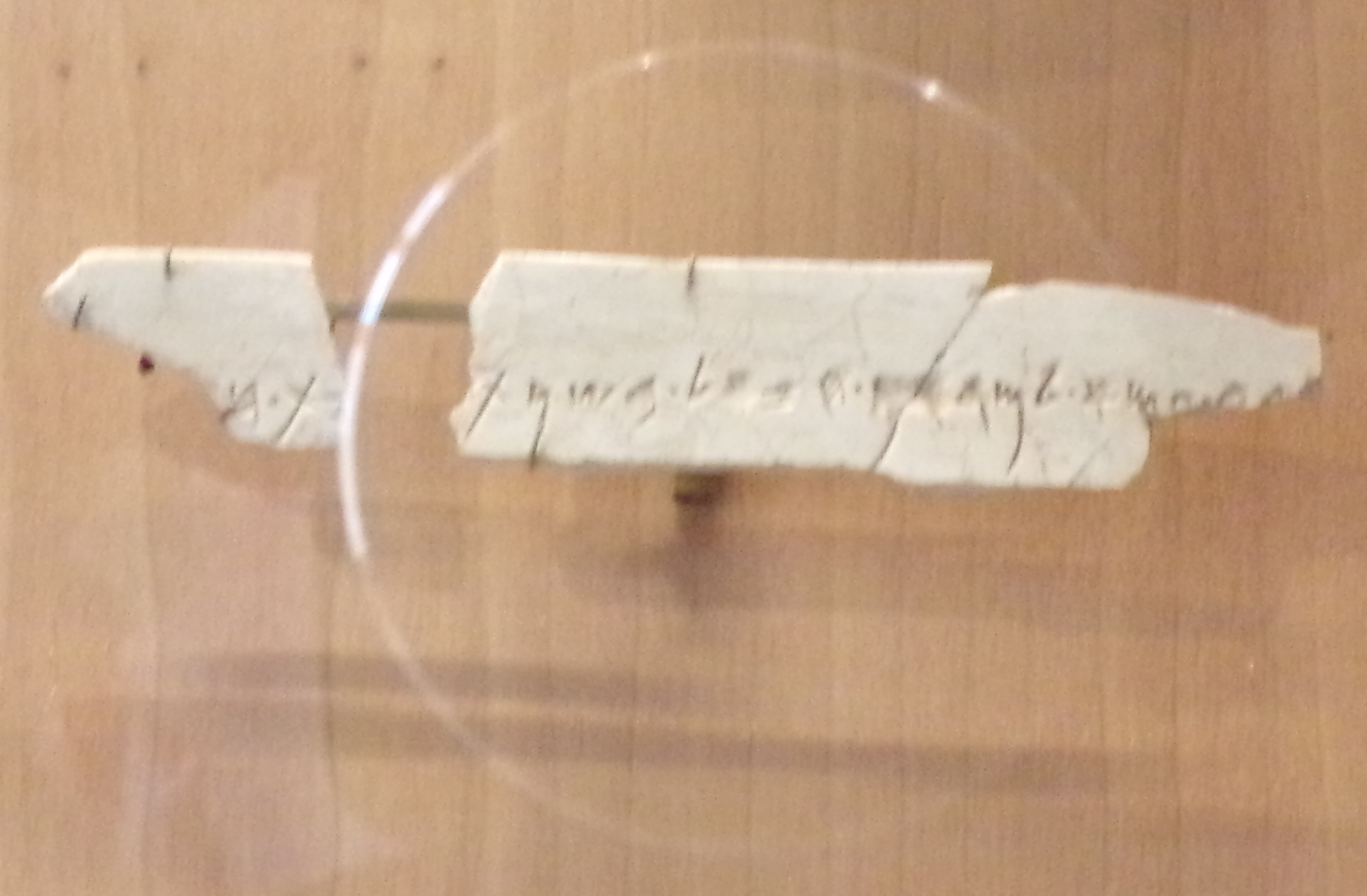 Ivory Plaque Mentioning Hazael, Aramaic language, from Arslan Tash (ancient Hadatu), end of the ninth century B.C.E., now in Louvre (room C, ground floor, Sully Wing, section 4), identification number AO 11489, inscription reads as follows: "This... has... son of Amma engraved for our lord Hazael in the year..."